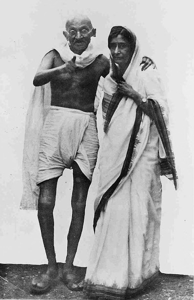 Mahatma Gandhi with Rajkumari Amrit Kaur at Simla in 1945.